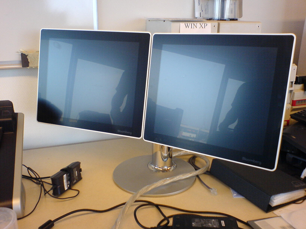 Bloomberg Terminal offline on desktop. foto's camera 424.